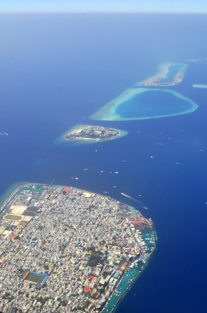 Malé, (pronounced: "Maa-leh") population 103,693 (2006), is the capital and largest city (in terms of population) in the Republic of Maldives. It is located at the southern edge of North Male' Atoll (Kaafu Atoll). It is also one of the Administrative divisions of the Maldives. Traditionally it was the King's Island, from where the ancient Maldive Royal dynasties ruled and where the palace was located. The city was also called Mahal. Formerly it was a walled city surrounded by fortifications and gates (doroshi). The Royal Palace (Gan'duvaru) was destroyed along with the picturesque forts (kotte) and bastions (buruzu) when the city was remodelled under President Ibrahim Nasir's rule after the abolition of the monarchy. In recent years, the island has been considerably expanded through landfilling operations.